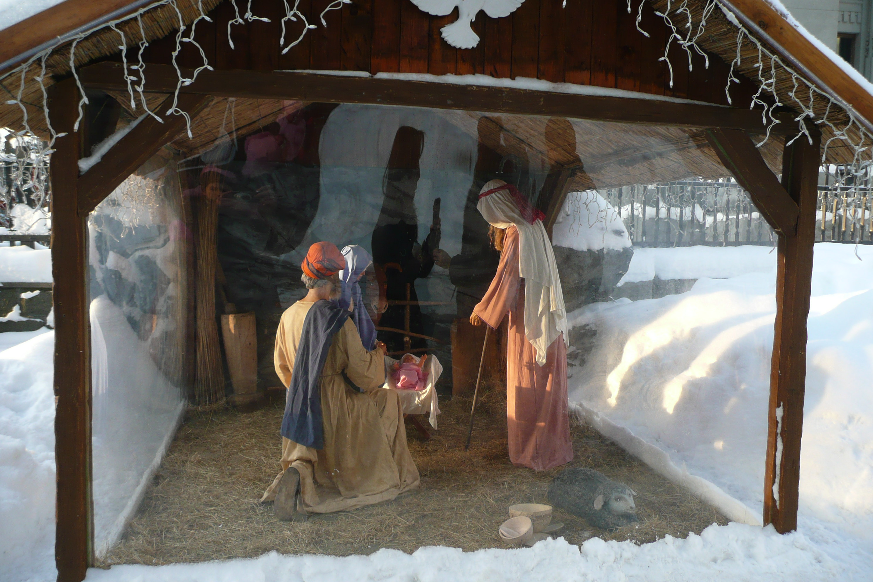 Kiev